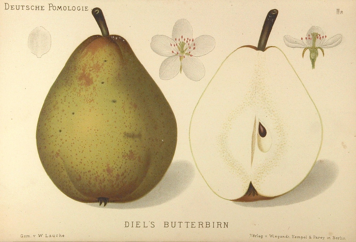 Page 8 from Deutsche Pomologie — Birnen, by Wilhelm Lauche, 1882. Published by Deutsche Pomologen-Vereins (German Pomological Society). Part of a series from the same book. The others can be found in Category:Deutsche Pomologie - Birnen Depicted pear cultivar: Diel's Butterbirn